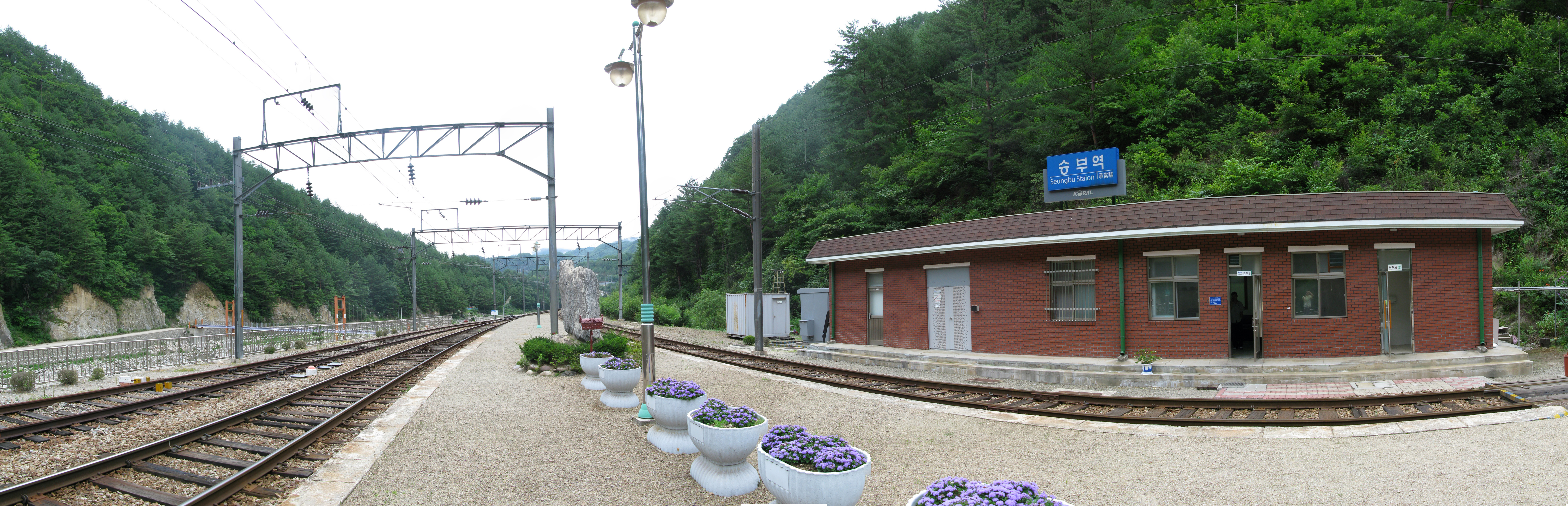 Yeongdong Line Seungbu Station